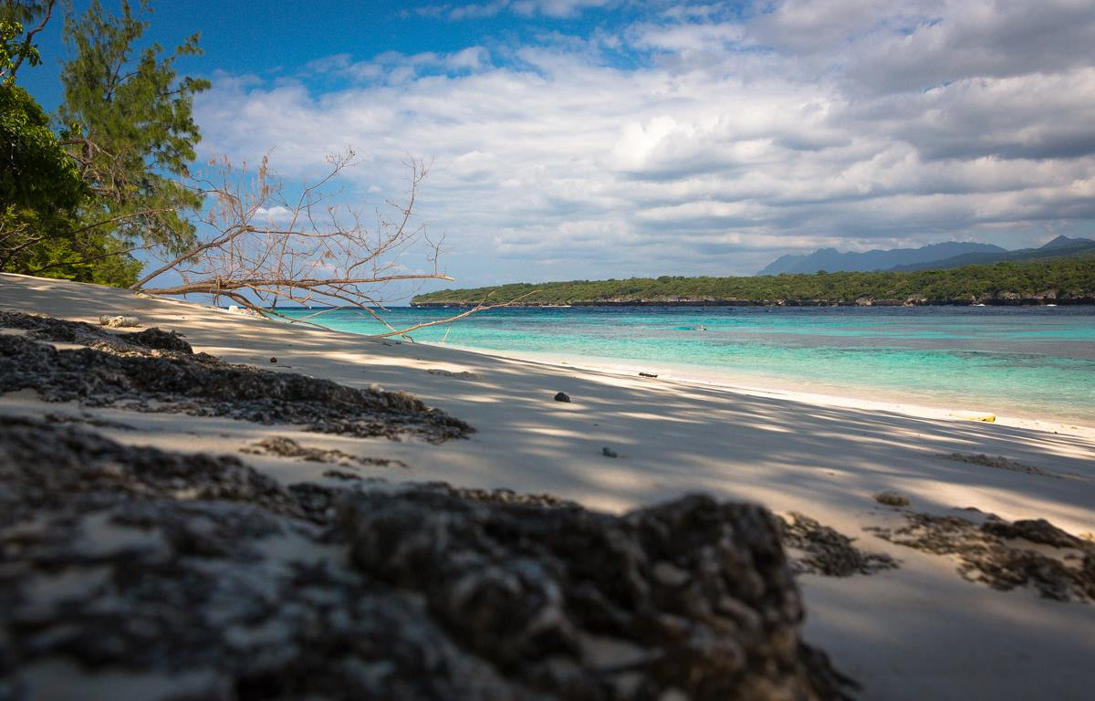 The following photographs are about a trip I made to "Jaco Island, sometimes spelt Jako, an uninhabited island in East Timor and lies within Nino Konis Santana National Park. Jaco lies just off the eastern end of the island of Timor, part of the Tutuala subdistrict in Lautém District, and is separated from the mainland in front of Valu Beach by a 700 m wide channel navigable by small vessels. It is lowlying, with an area of 11 km2 and a maximum elevation of about 100 m. It is covered mainly by tropical dry forest, fringed by strand vegetation and sandy beaches. There are some low cliffs on the southern coast." Let's say it's a paradise on earth, as you can see by the photo.